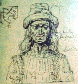 John I, Count of Luxemburg